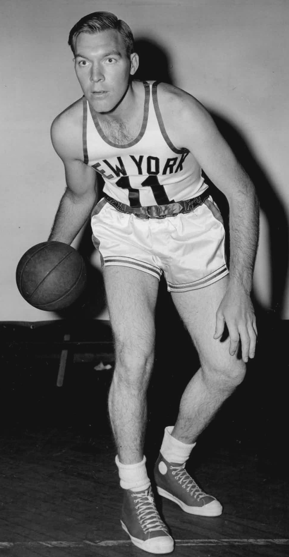 Professional basketball player Harry Gallatin